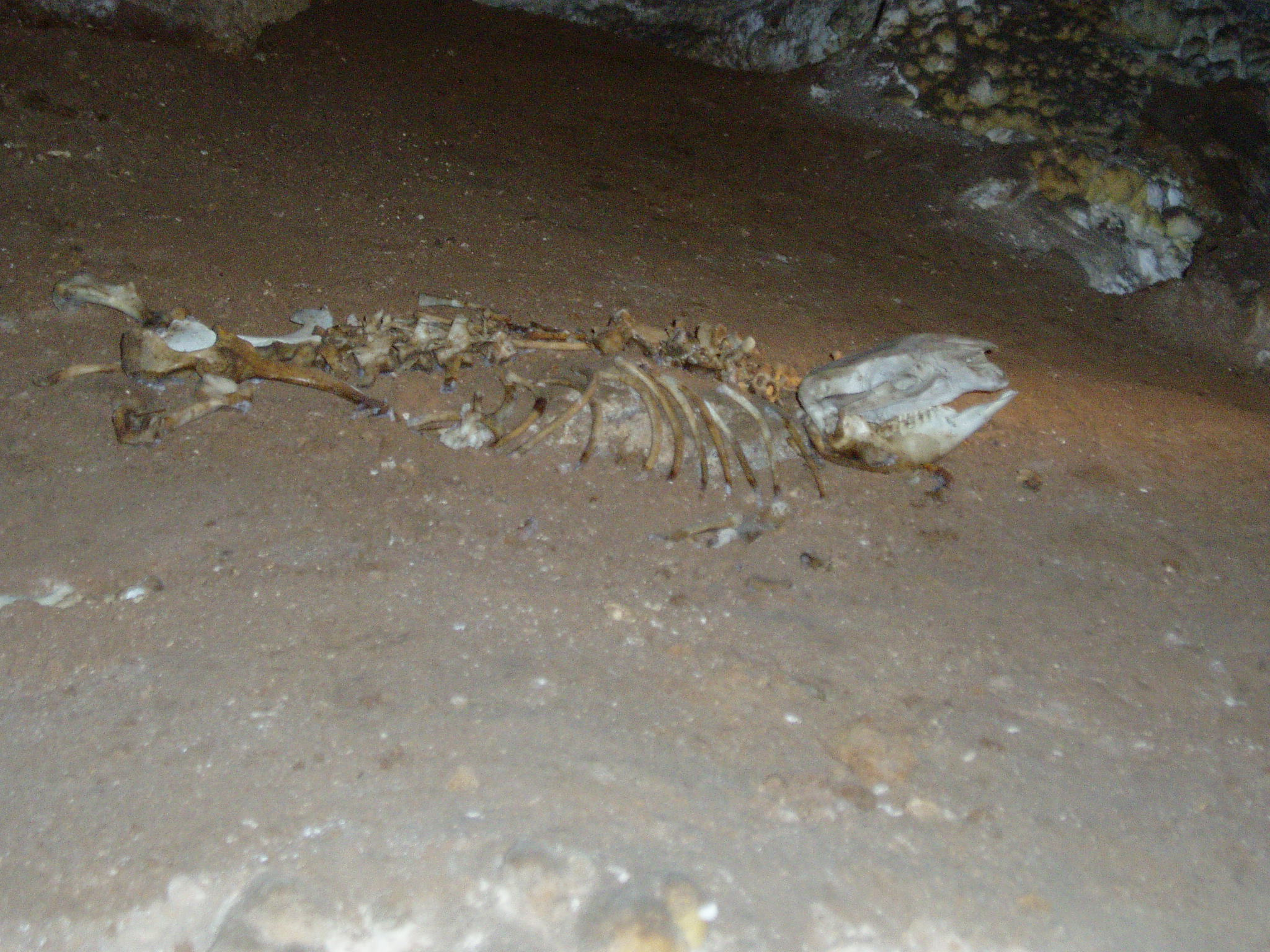 A wombat that found its way into the Imperial-Diamond cave at Jenolan, but couldn't get out again. Because it is so deep within the cave system, it is probable it fell through a hole rather than got lost. It is also possible that the animal was already dead and was washed into the cave as a carcass during a flood.